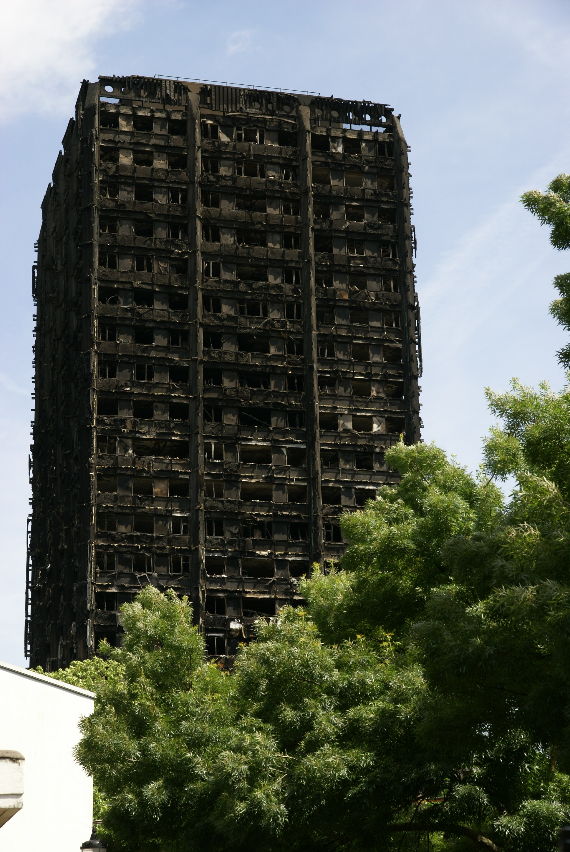 The charred remains of Grenfell Tower. Photo taken near Bramley Road, London.